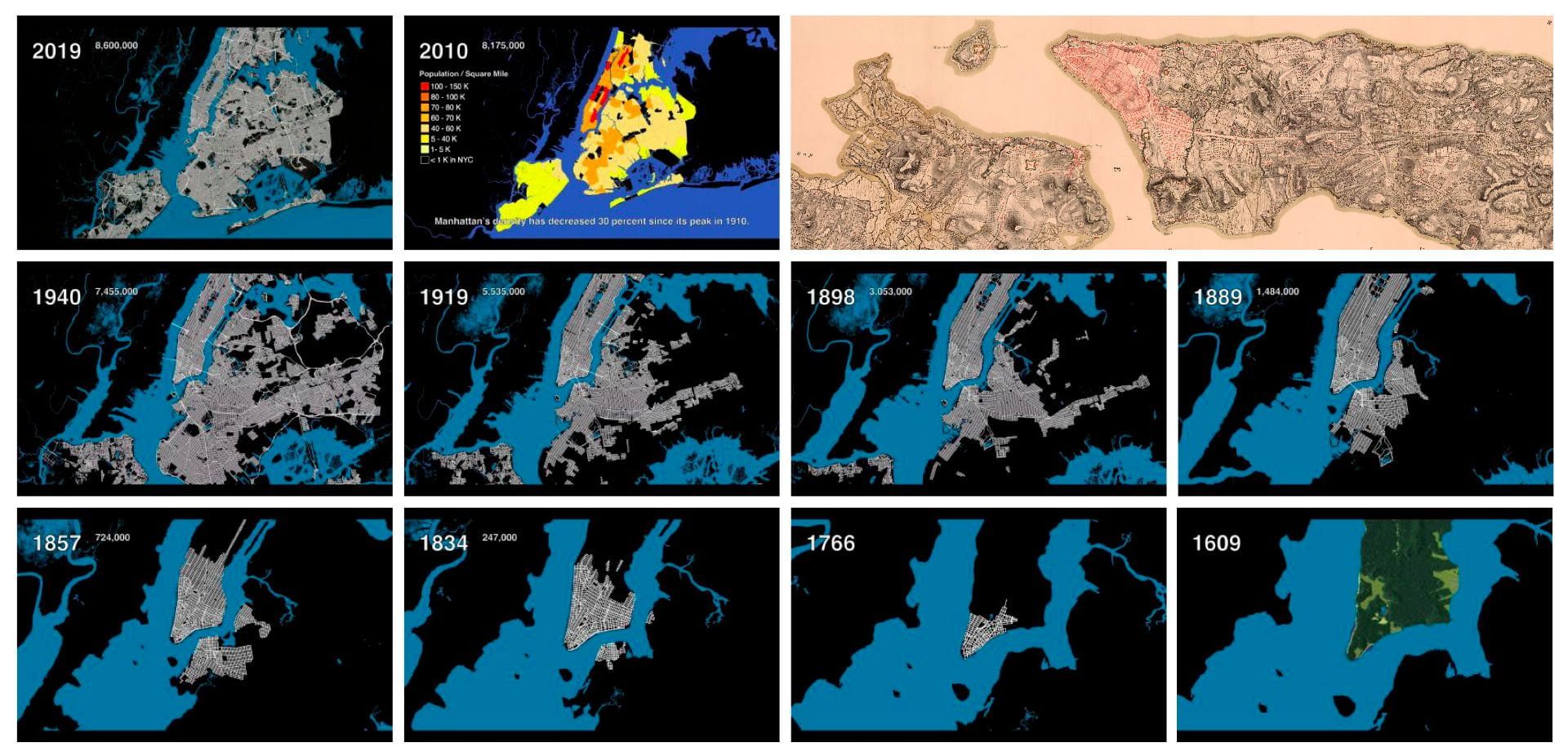 Here Grows New York - official film poster